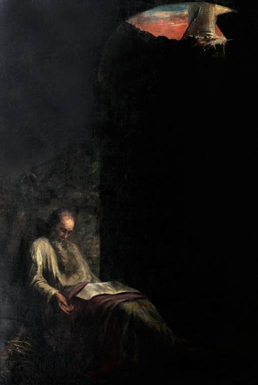 The Apostle Paul in the cave